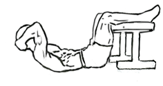 an exercise of abs